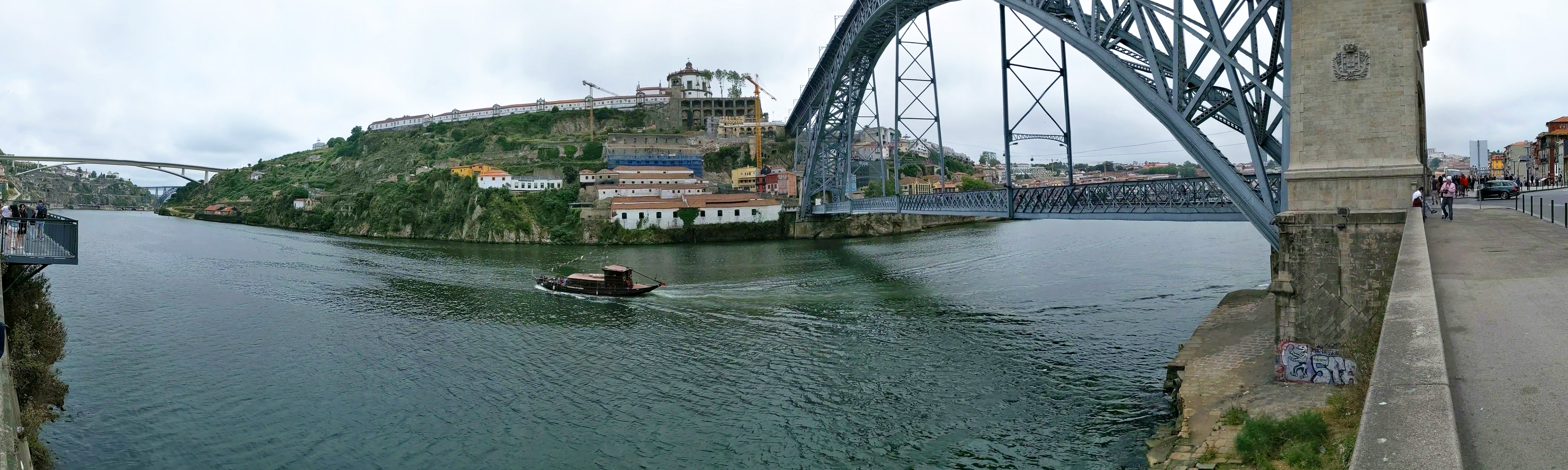 Pano view across the Douro from under Dom Luís I Bridge, with the Monastery of Serra do Pilar at top center